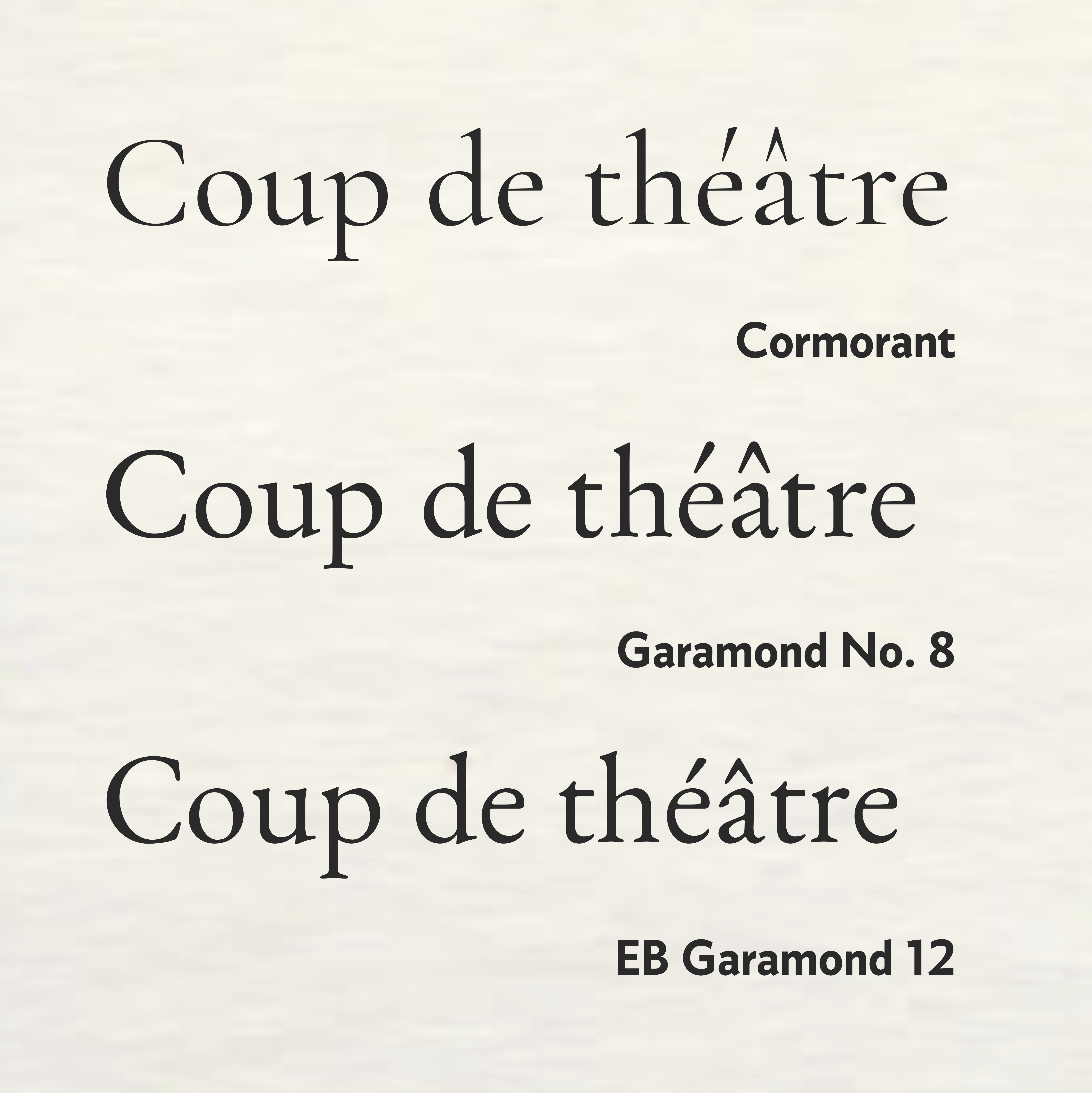 Free and open source Garamond revivals. Cormorant and EB Garamond are completely open source. Garamond No. 8 is distributed under the Aladdin license, making it free for use, including by commercial entities for evaluation or unsupported internal use. However, distribution for commercial purposes is not permitted.